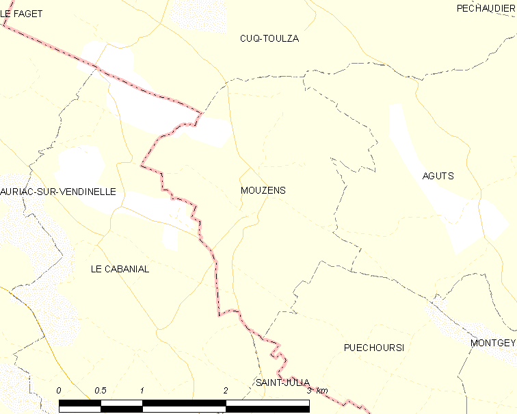 Map of French municipality Mouzens